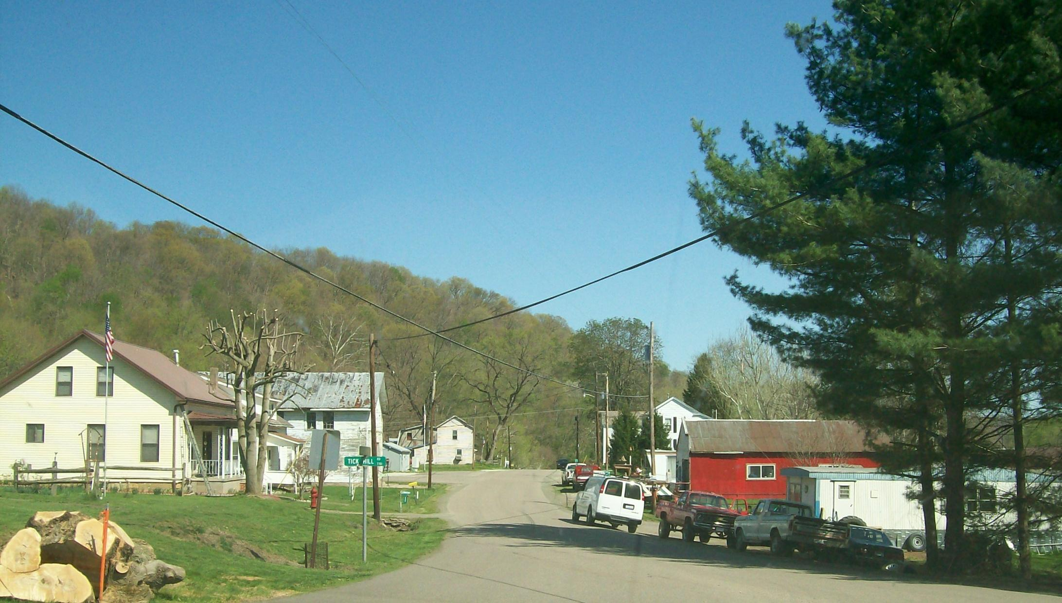 Coal Run Historic District in Washington County, Ohio. The district is photographed looking east from the junction of Township Road 101 and County Road 393. On the NRHP for Washington County, Ohio. Taken on 04-10-2010.